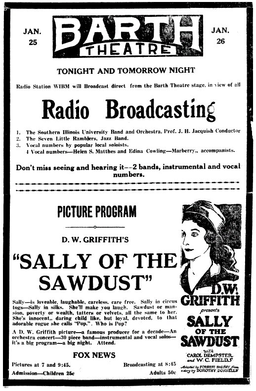 Promotional advertisement for programs at the Barth Theatre in Carbondale, Illinois, which were broadcast locally over Billy Maine's portable radio station, WIBM.